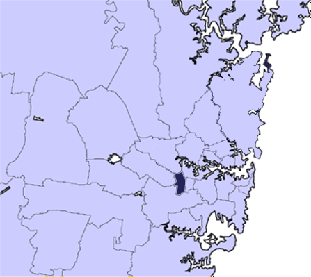 Locator Map Strathfield sydney lga.png Based on Image:Ku-ring-gai sydney.png by User:Randwicked.